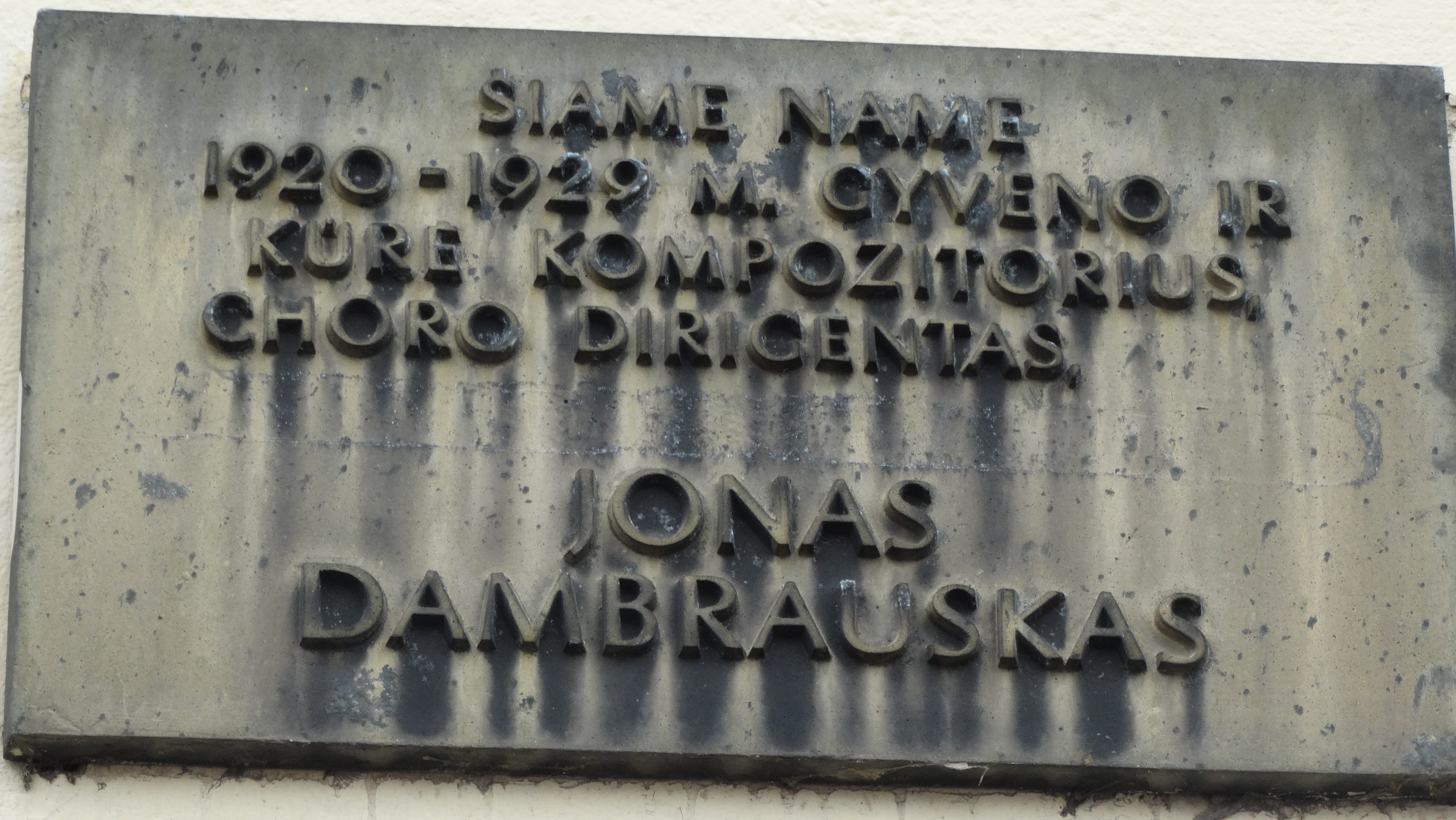 Memorial plaque to Jonas Dambrauskas, Kaunas, Lithuania